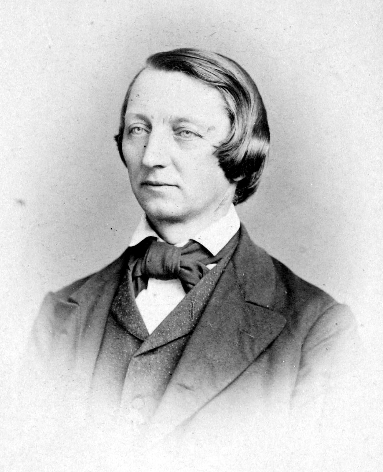 Otto Delitsch